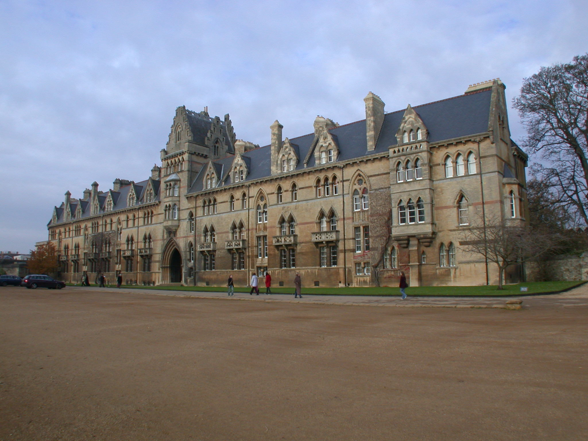 Meadow Building, Christ Church, Oxford, England